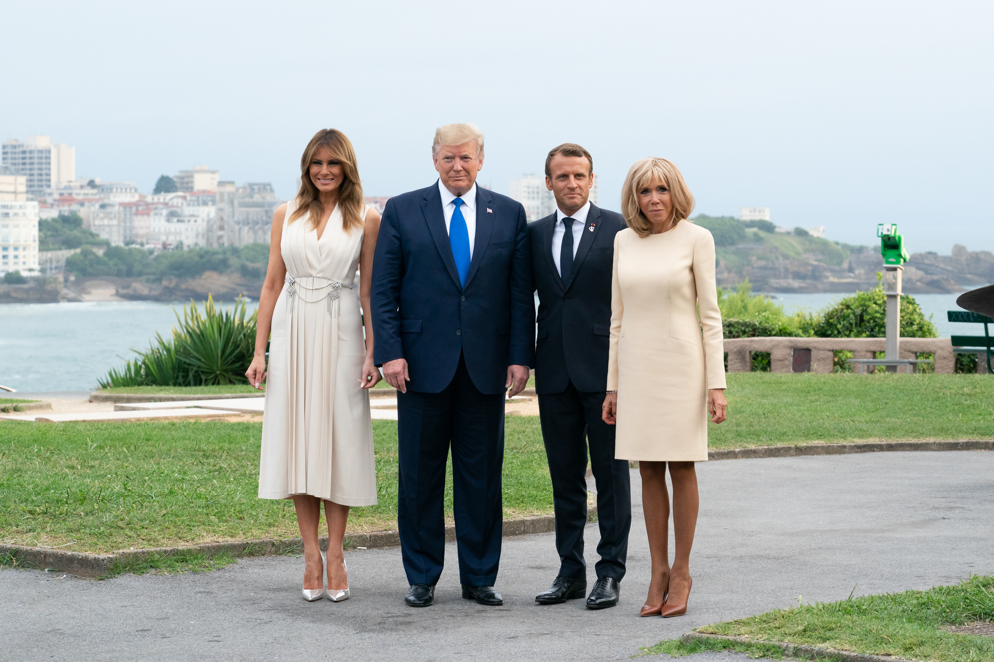 President Donald J. Trump and First Lady Melania Trump arrive to the G7 Leaders’ Working Dinner and are greeted by French President Emmanuel Macron and his wife Mrs. Brigitte Macron Saturday, Aug. 24, 2019, at the Phare de Biarritz in Biarritz, France. (Official White House Photo by Andrea Hanks)